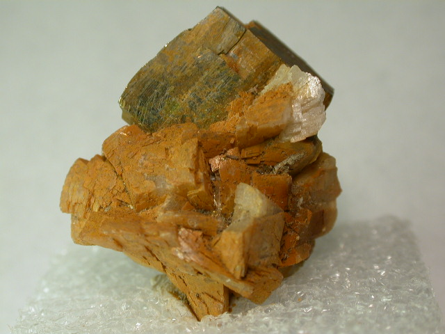 Ankerite on Pyrite Locality: Spruce Claim (Spruce Ridge), Goldmyer Hot Springs, King County, Washington, USA Original description: A 2.5 by 2.2 cms group of tan crystals on a Pyrite crystal.